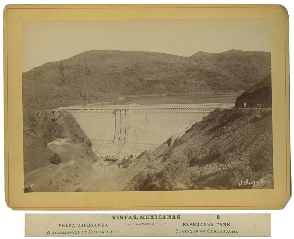 Title: Presa Esperanza. Alternative Title: Esperanza Tank. Creator: Briquet, Abel Date: ca. 1885-1899 Part Of: Views in Mexico Place: Guanajuato, Guanajuato, Mexico Physical Description: 1 photographic print on boudoir card mount: albumen; 13 x 19 cm on 16 x 22 cm mount File: ag1985_0372_008c_esparanza.jpg Rights: Please cite DeGolyer Library, Southern Methodist University when using this file. A high-resolution version of this file may be obtained for a fee. For details see the web page. For other information, . For more information and to view the image in high resolution, see: View the Mexico: Photographs, Manuscripts, and Imprints